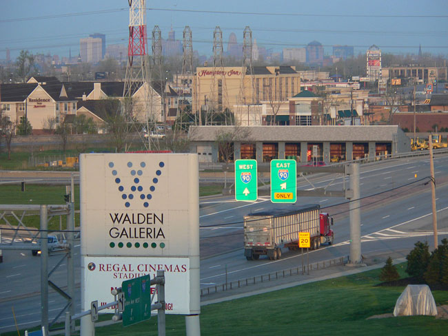 Walden Galleria sign. Cheektowaga NY. May 2009